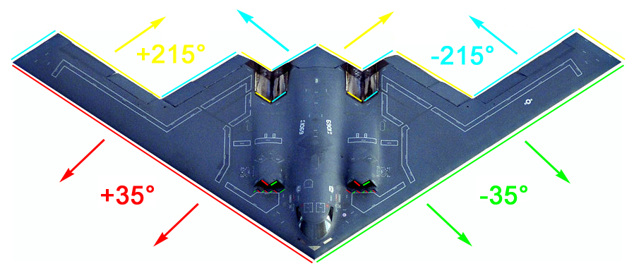 B-2 radar reflections from edges